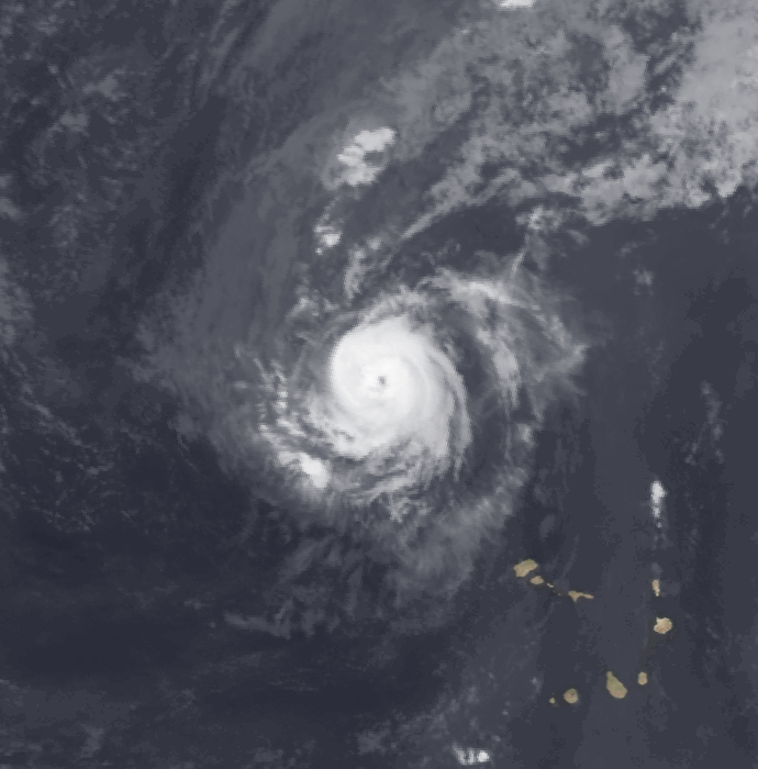 Hurricane Lisa at peak intensity.